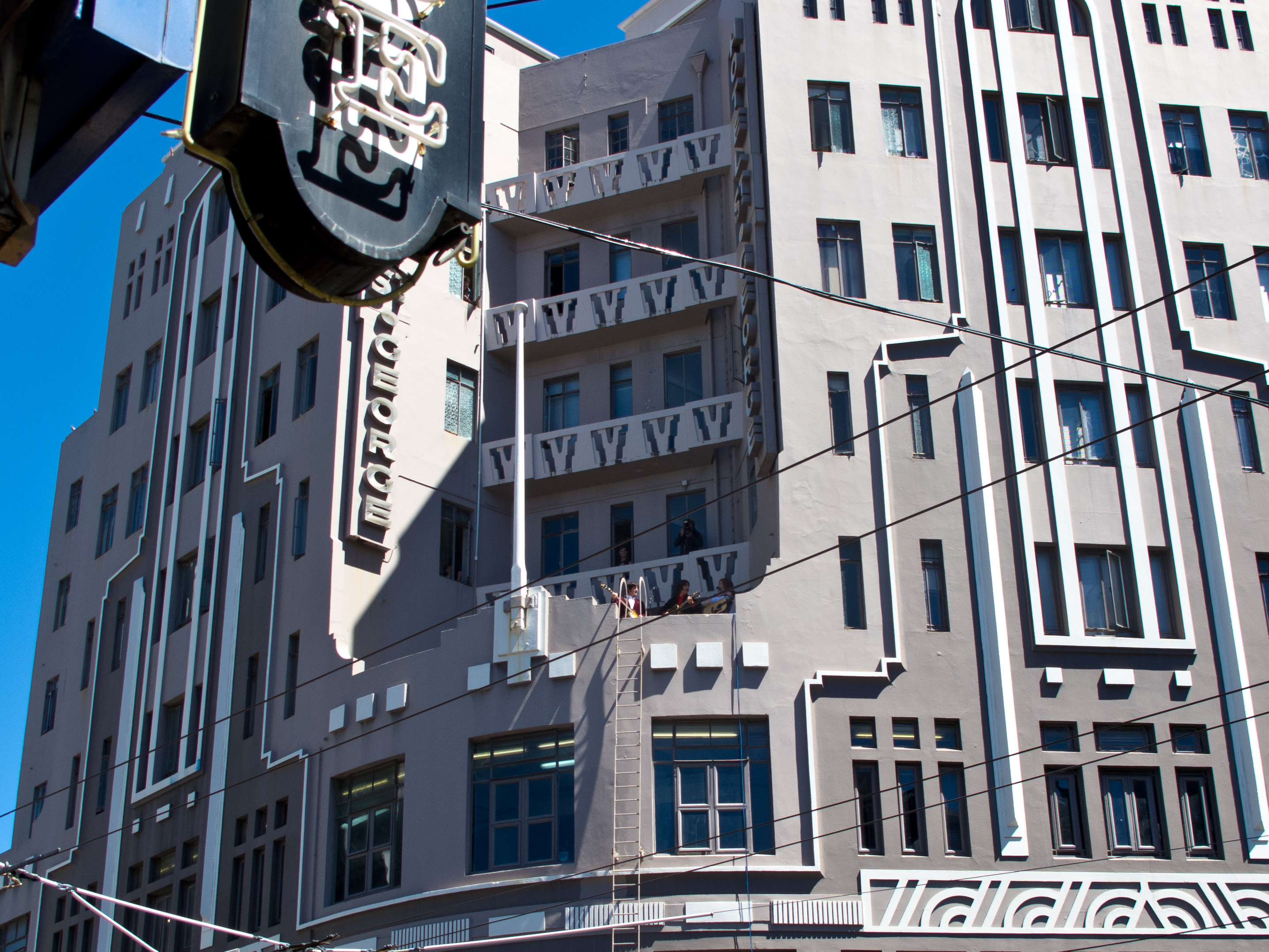 The Bootleg Beatles in October 2012 re-enacting the June 1964 Beatles performance. Corner of Willis and Boulcott Streets.